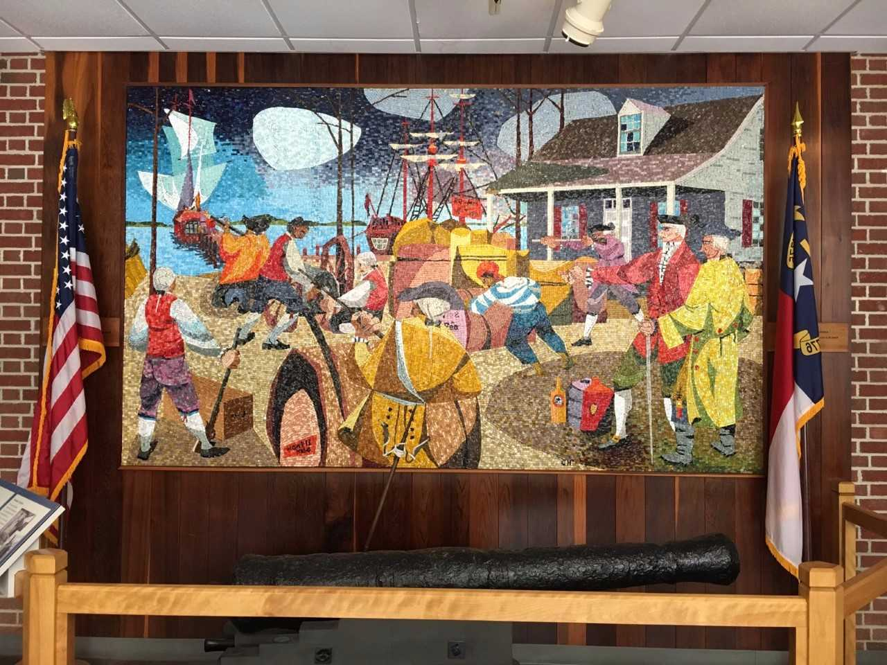 Mosaic depicting the Spanish Attack created by Claude Howell